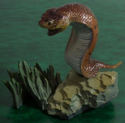 Tsuchinoko (ツチノコ, a legendary snake-like cryptid from Japan), Collect-Clib (コレクト倶楽部)